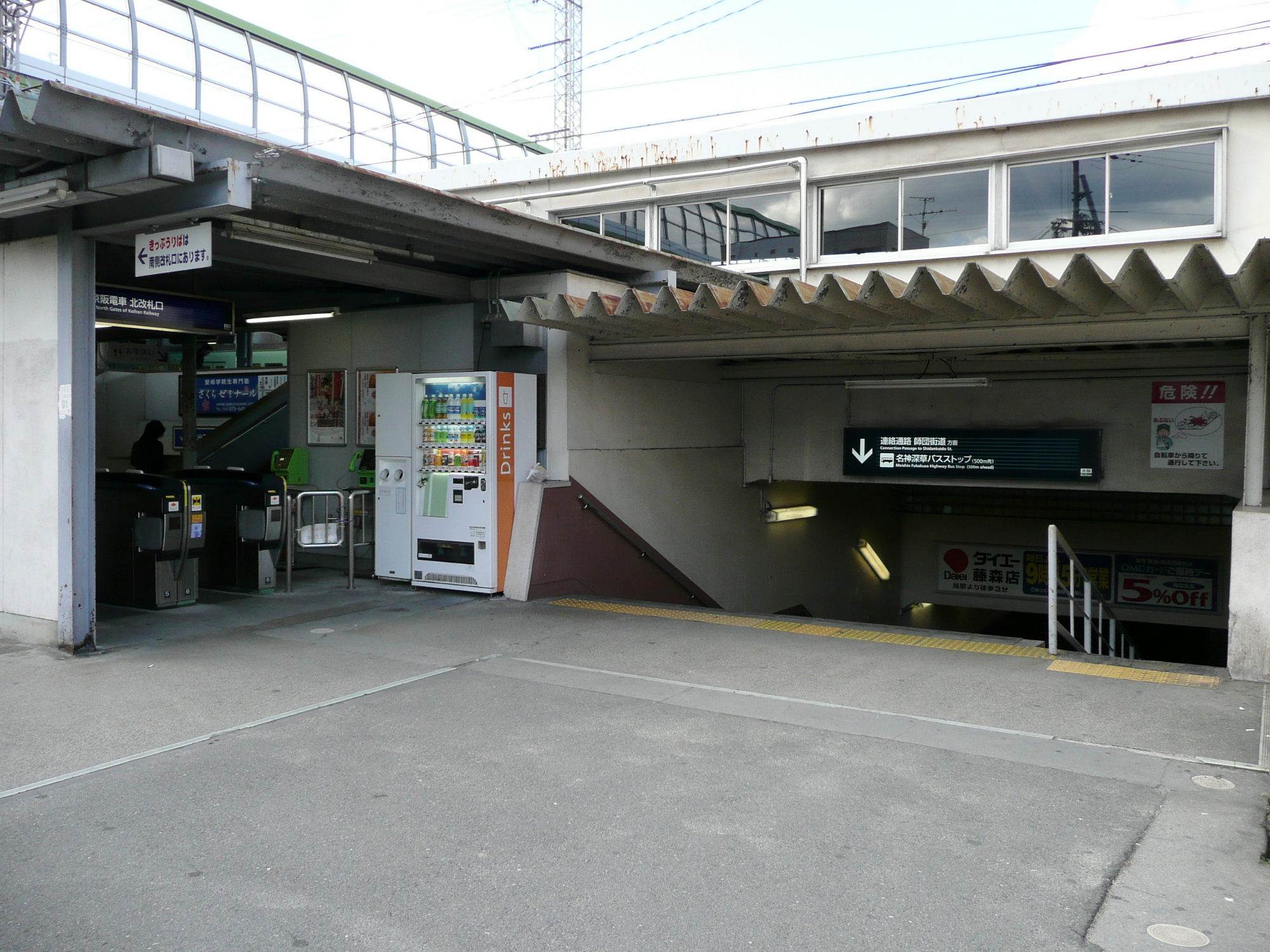 Keihan Electric Railway,Keihan Main Line,Fujinomori Station north gate. / 京阪線藤森駅北改札